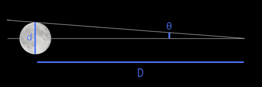 Apparent diameter, this is the angle by means of which it is seen a certain distance.